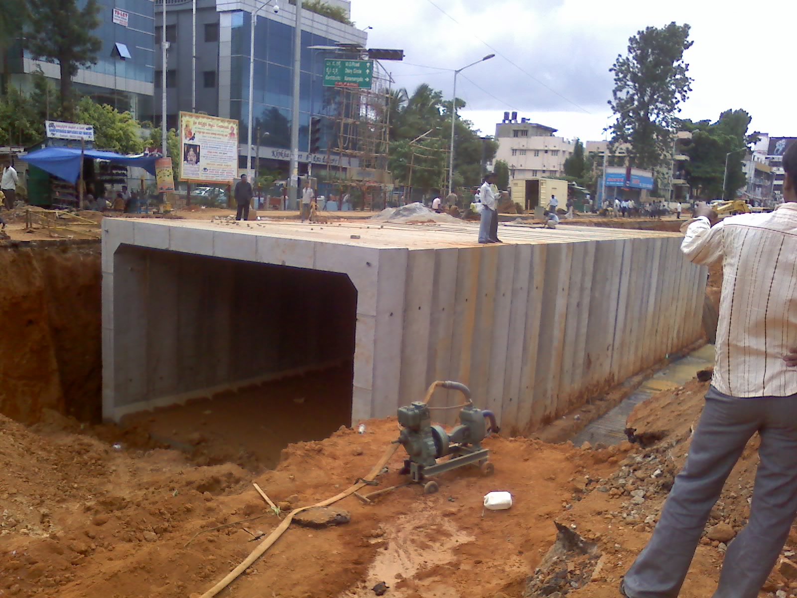 Reinforced Concrete Cement, Precast Magic Box, at Hosur Road - Inner Ring Road Junction at Madiwala.